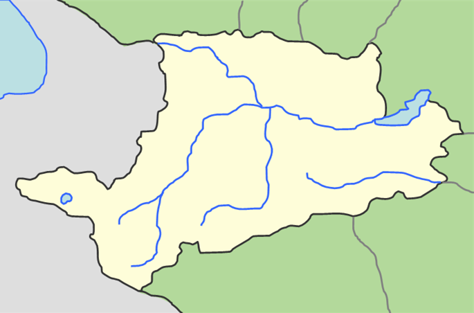 Map of Kelbajar district of Azerbaijan